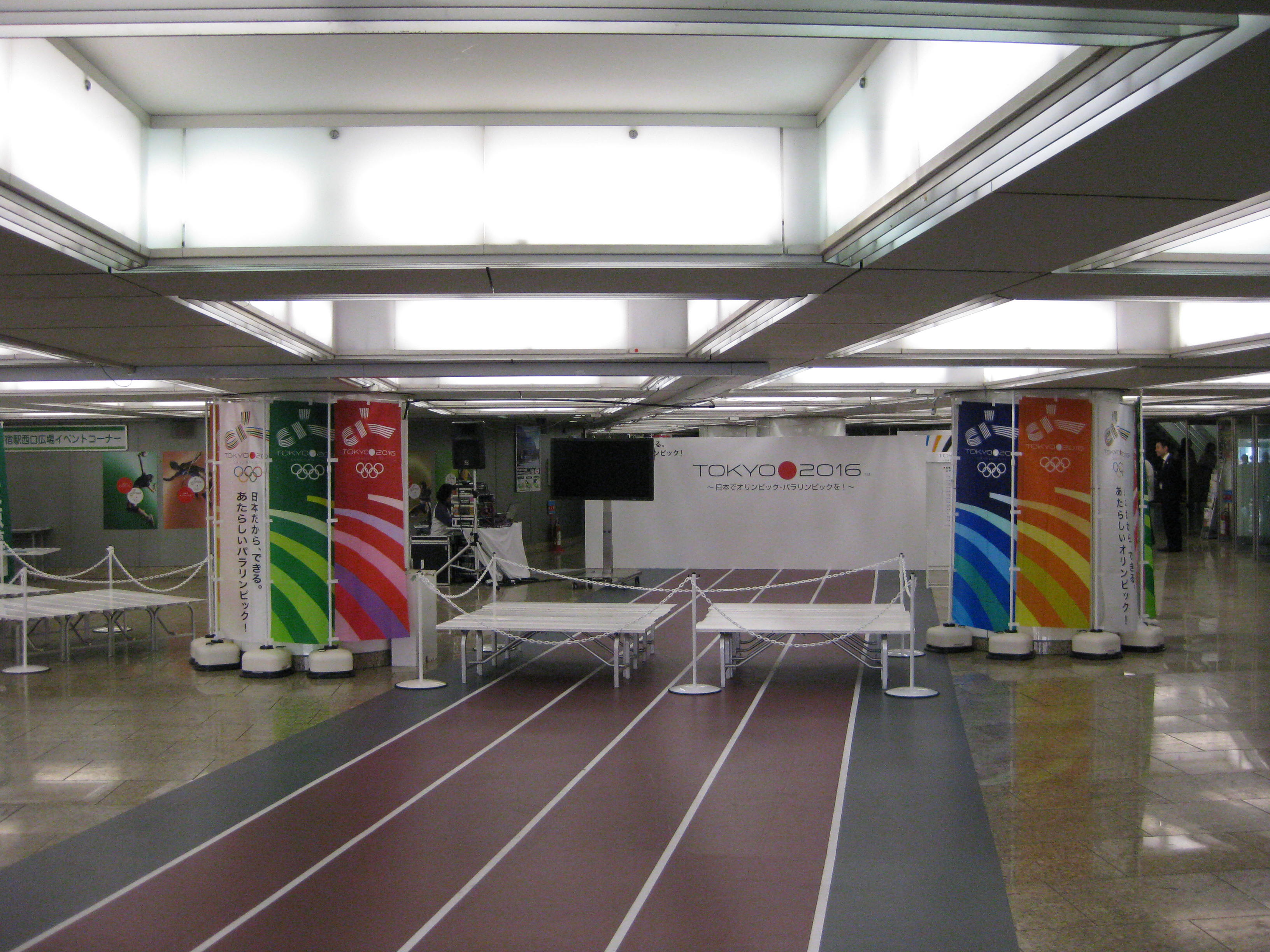 A display advertising Tokyo's bid for the 2016 Summer Olympics near the western exit to the Shinjuku Station.